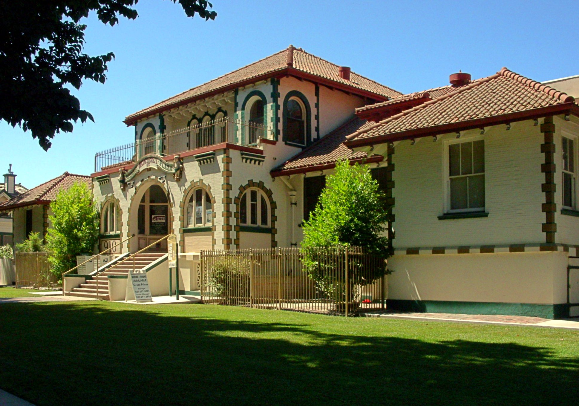 The original Hazel Hawkins Hospital, Hollister, California.